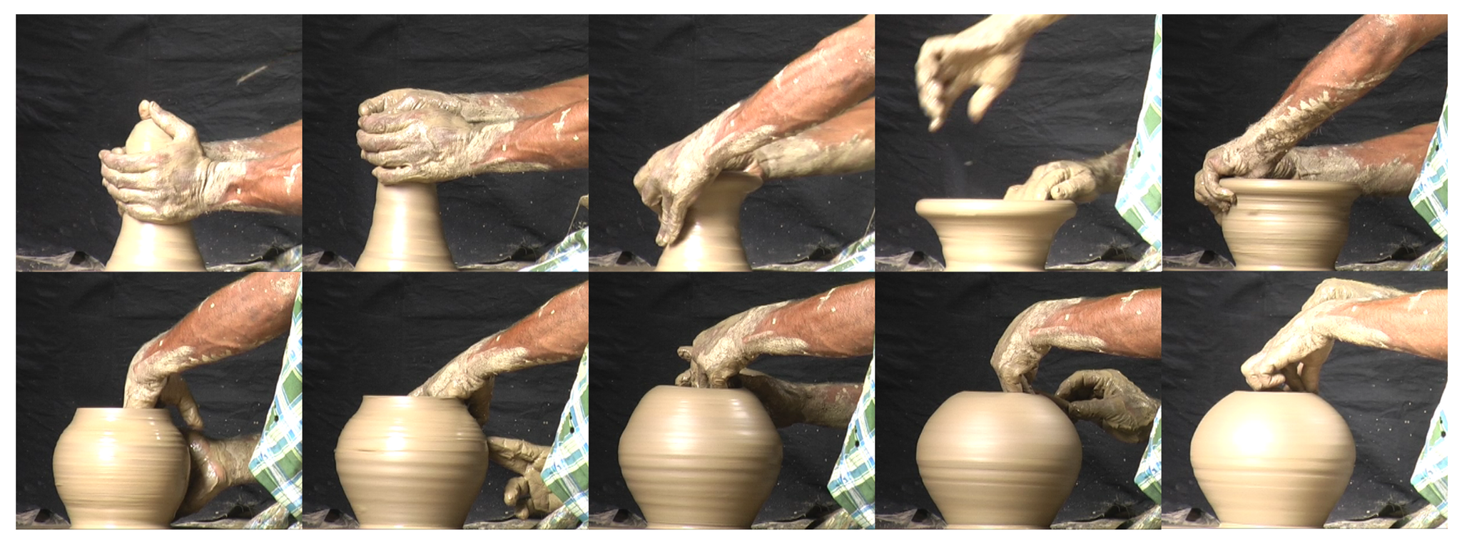 Examples of hand positions used during wheel-throwing. The images were extracted from a video recording of an Indian Multani potter throwing a 2.25 kg sphere.